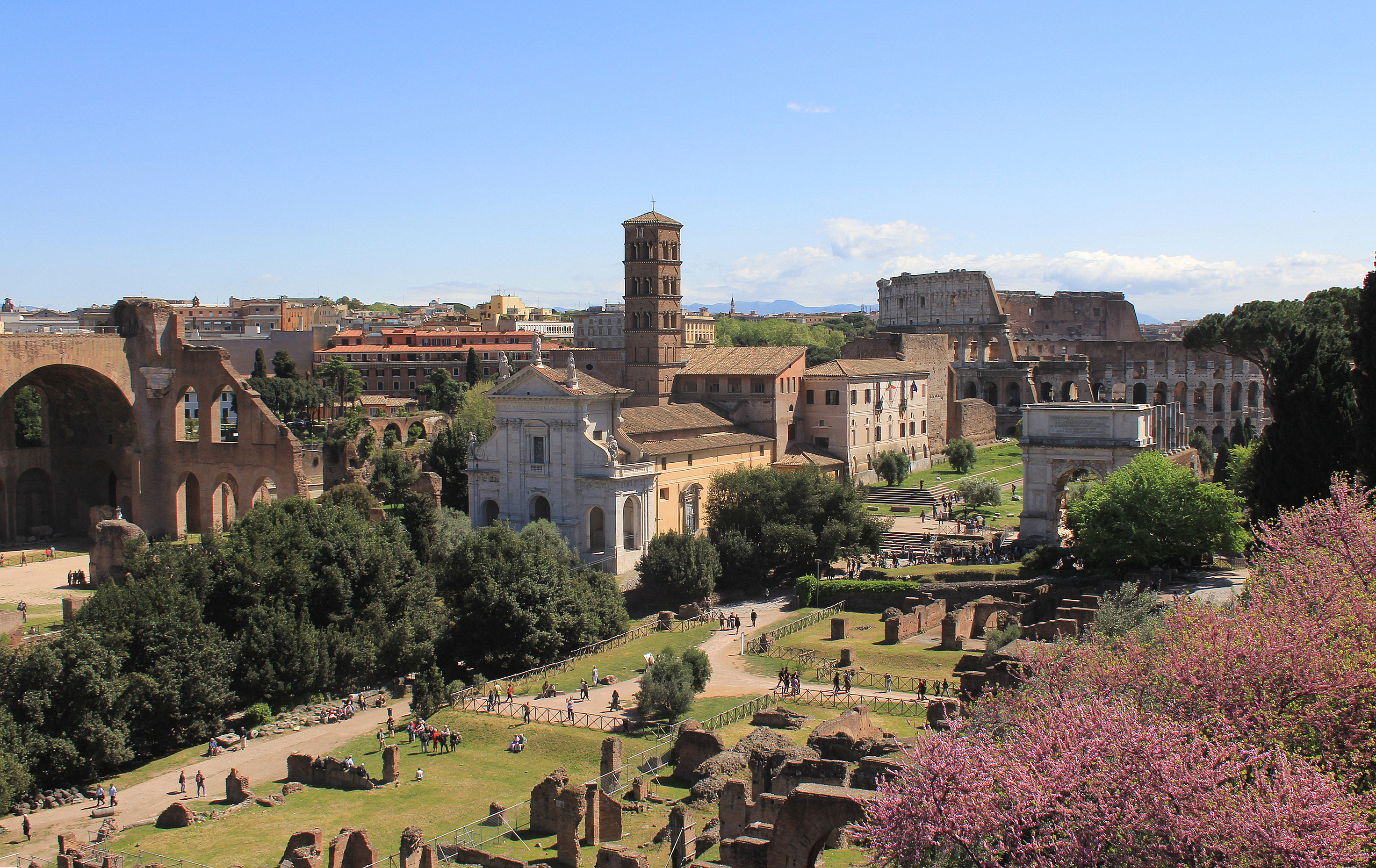 Look from Palatine Hill by direction of Forum Romanum, basilica Santa Francesca Romana, Arch of Titus and Colosseum, Rome, Italy